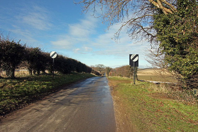 Road from All Saints Church, Fring